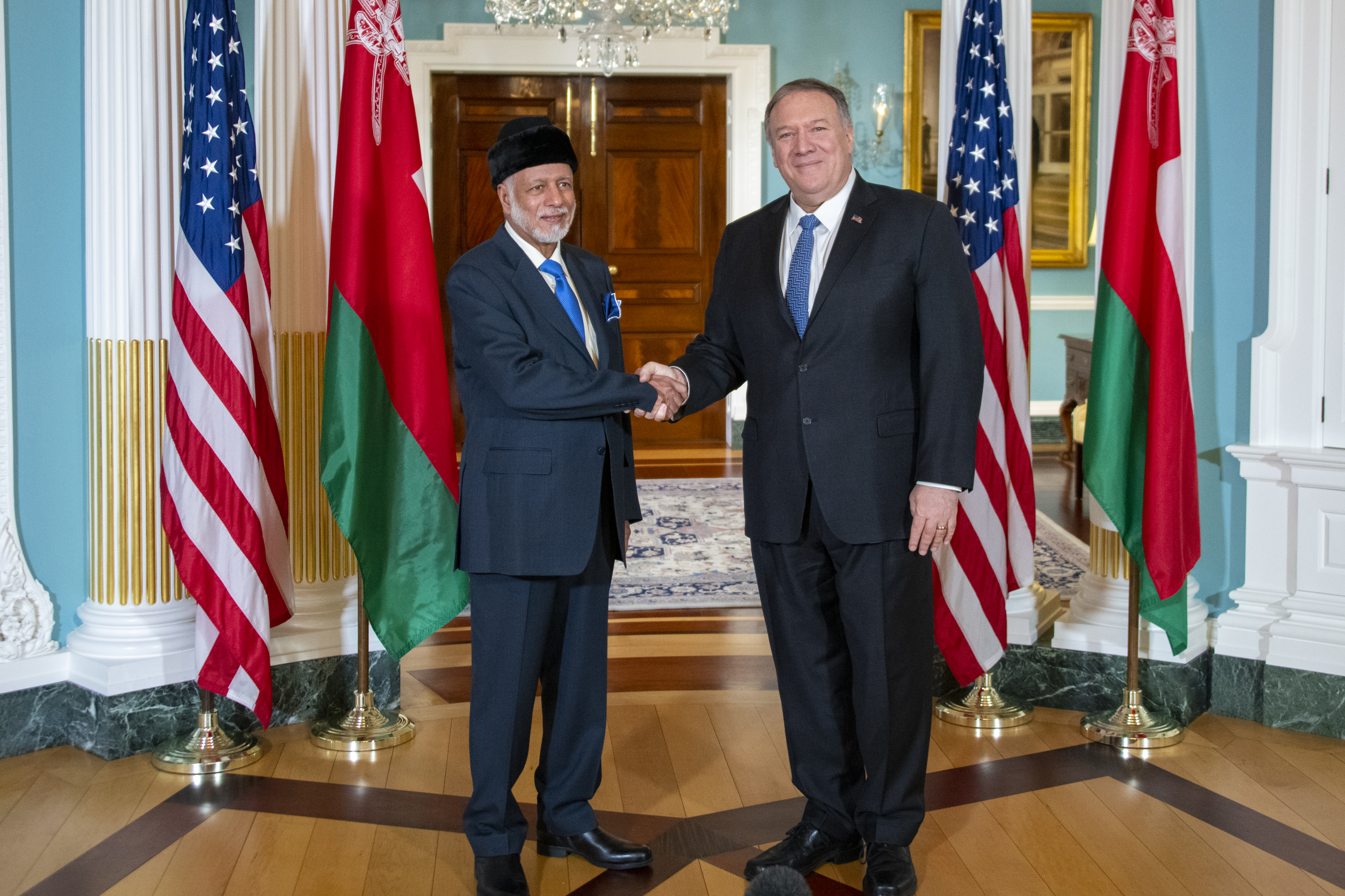 Secretary of State Michael R. Pompeo meets with Omani Foreign Minister Yusuf bin Alawi bin Abdullah at the U.S. Department of State in Washington, D.C., on November 25, 2019. [State Department photo by Freddie Everett/ Public Domain]